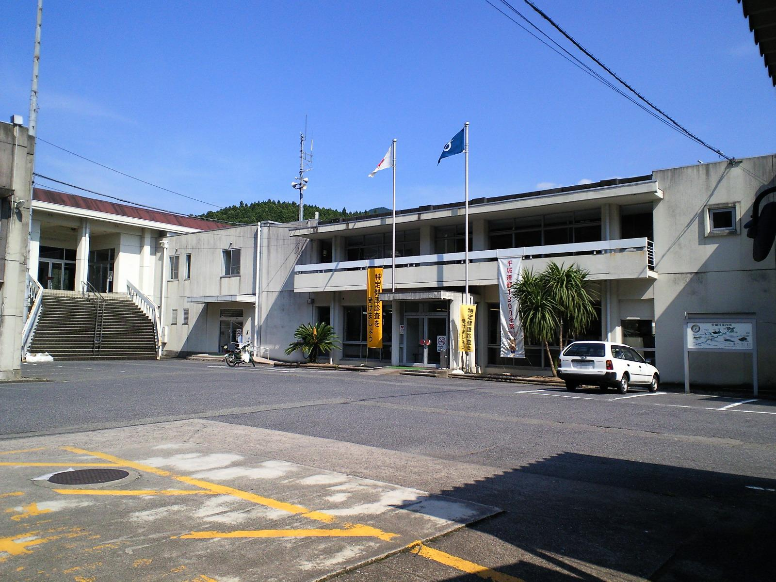 Soni Town Office in Nara Prefecture, Japan